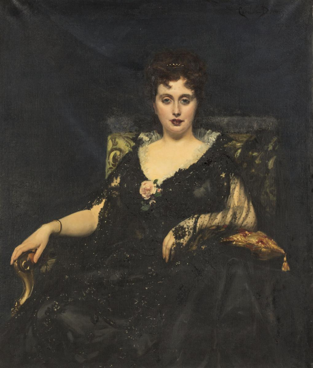 Louise Cahen Danvers, née Morpurgo